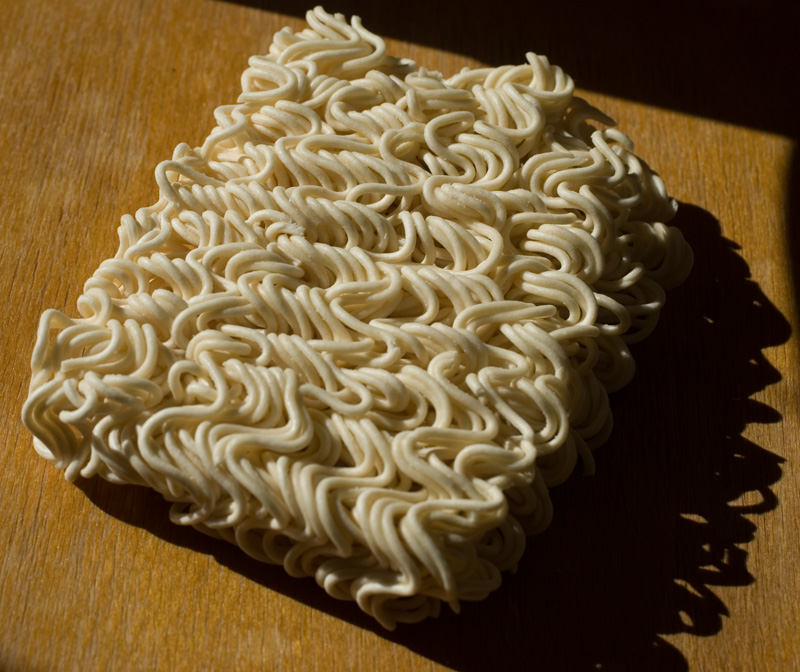 A brick of Instant noodles as they are commonly available in Europe.